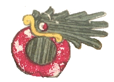 Water-mirror from the back of Tezcatlipoca's head on Page 17 of the Codex Borgia, with attached atl day sign ("water"